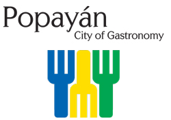 THE POPAYAN GASTRONOMIC DECLARATION “TOWARD A WORLD UNION OF GASTRONOMIC CITIES”